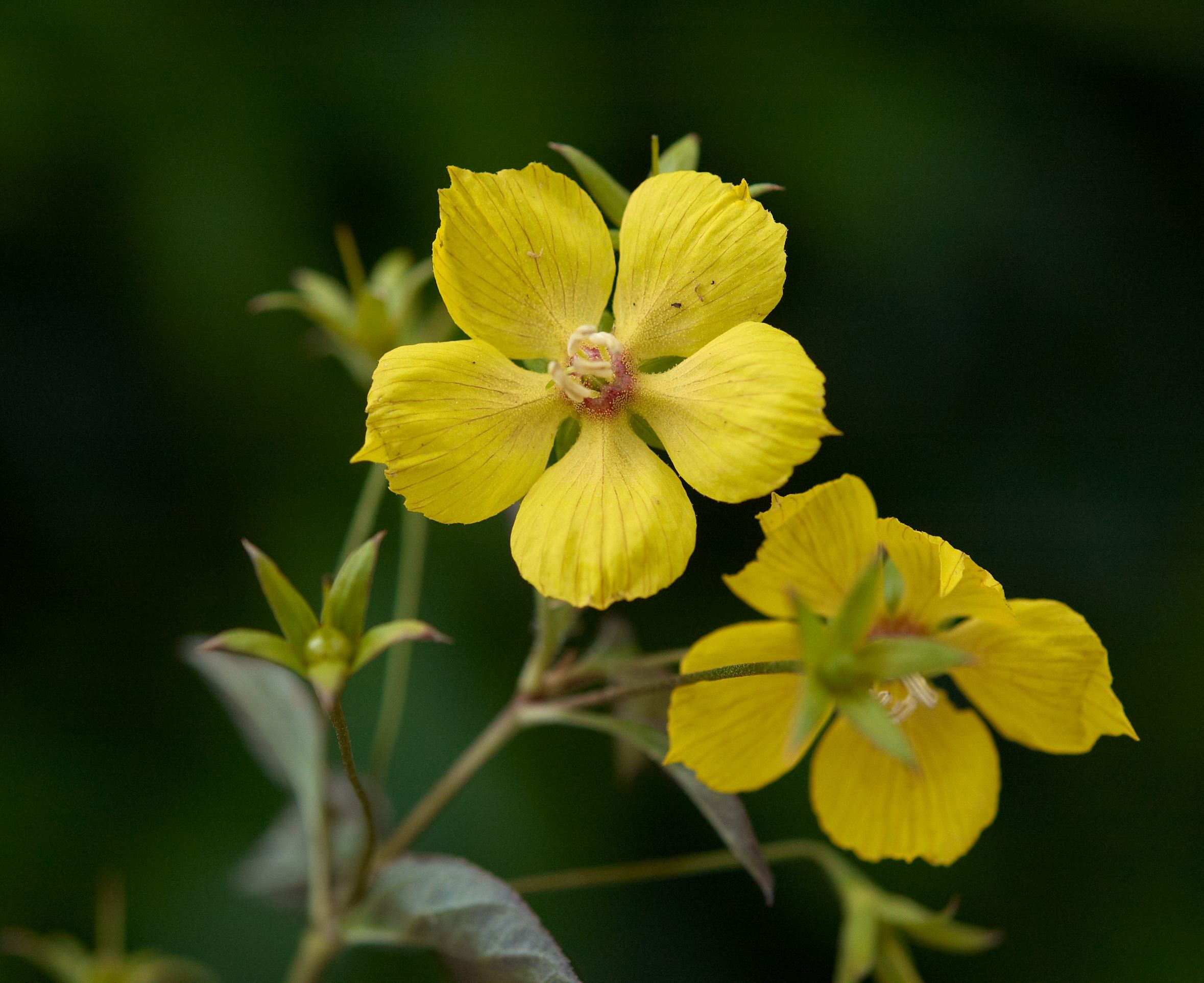 Lysimachia ciliata 'Firecracker'